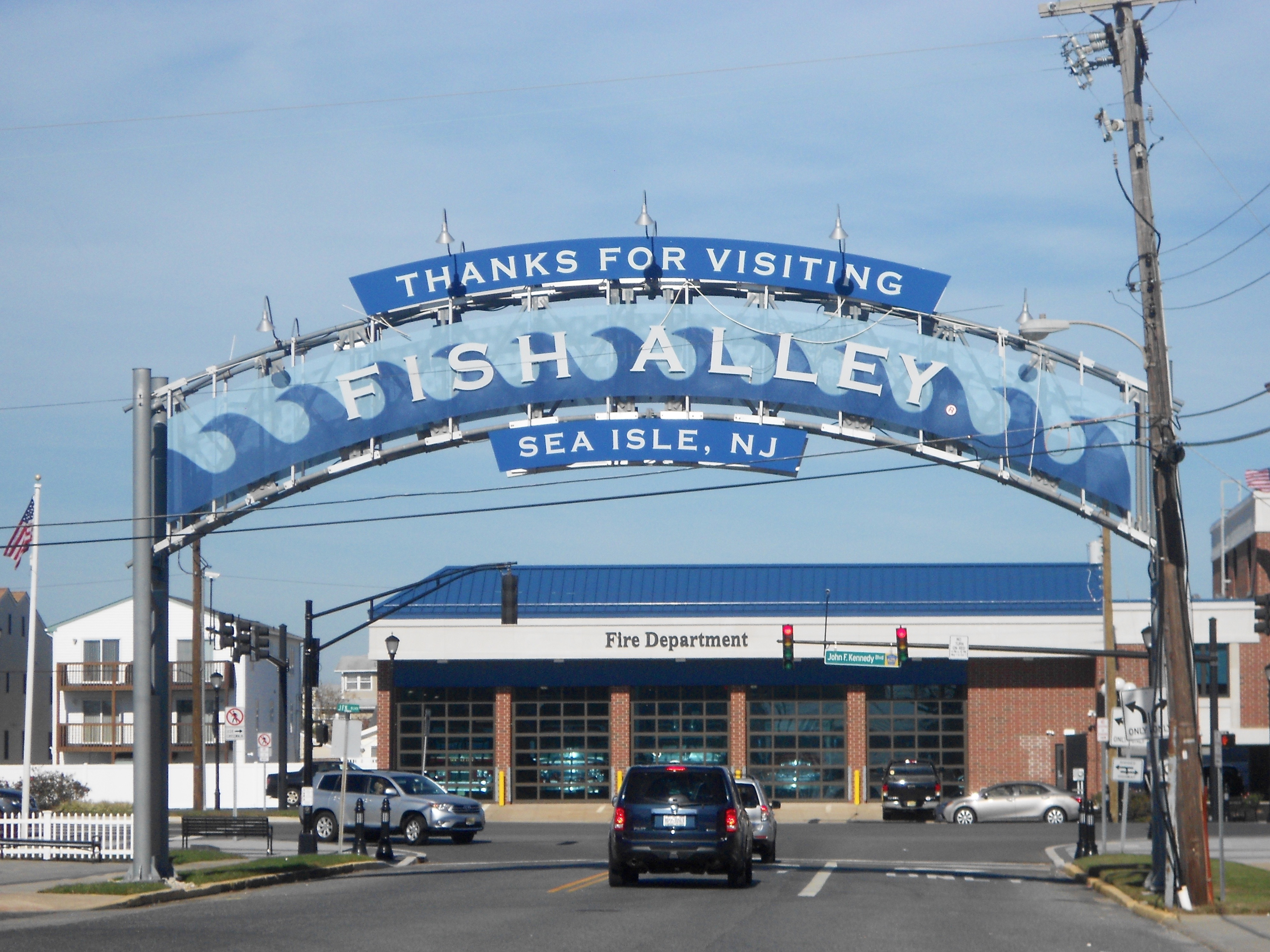 "Fish Alley" arch and Fire Department in Sea Isle, New Jersey